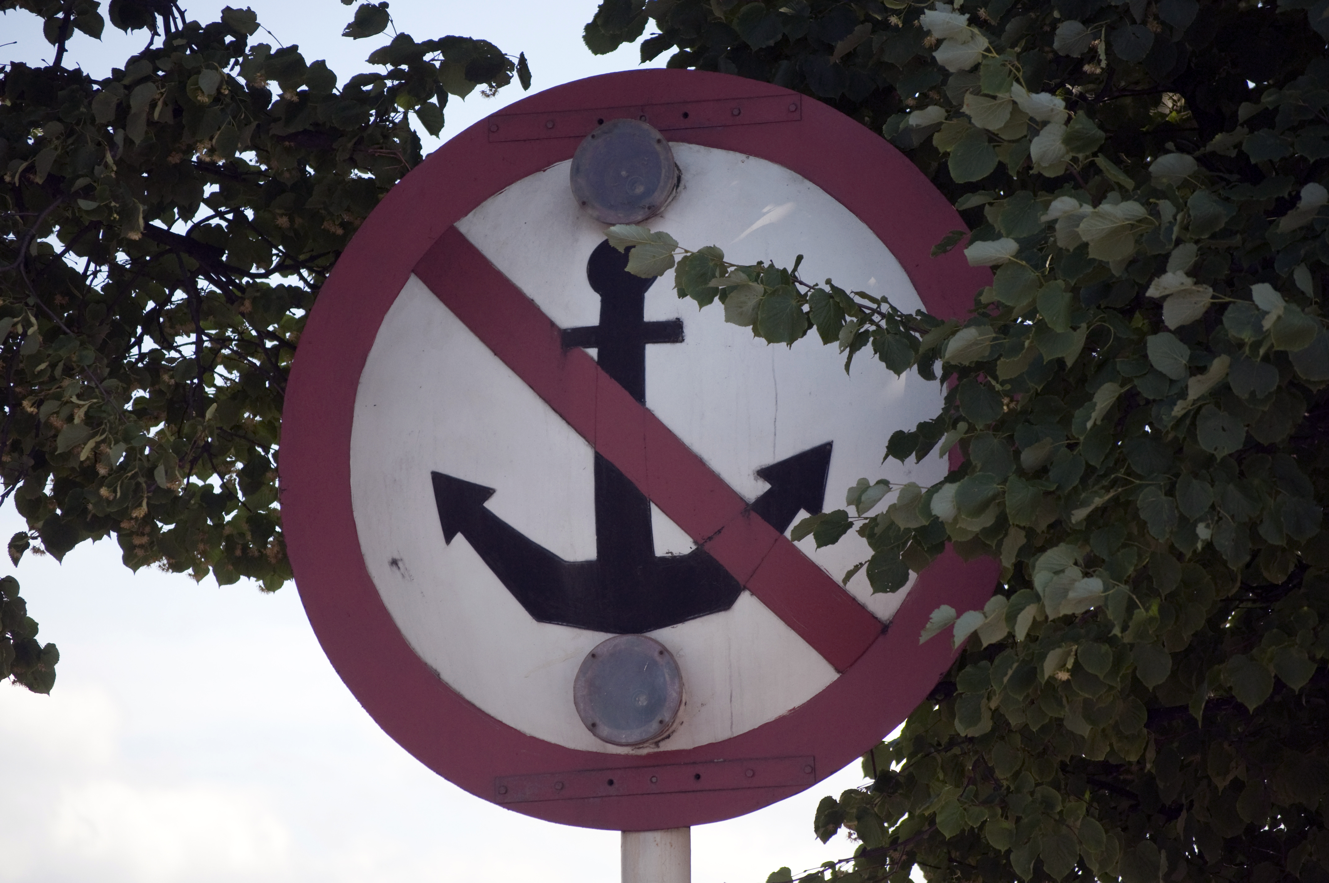 sign, anchor